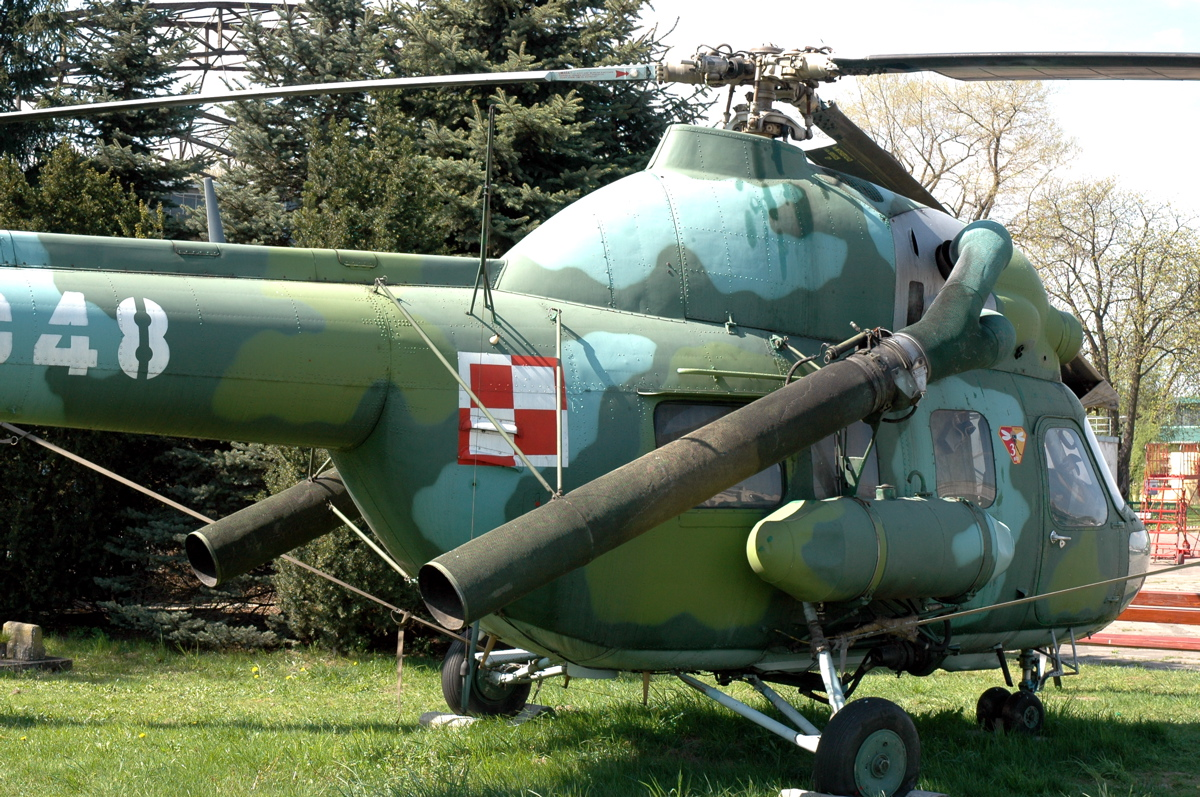 Mi-2Ch helicopter (Polish Aviation Museum, Cracow)